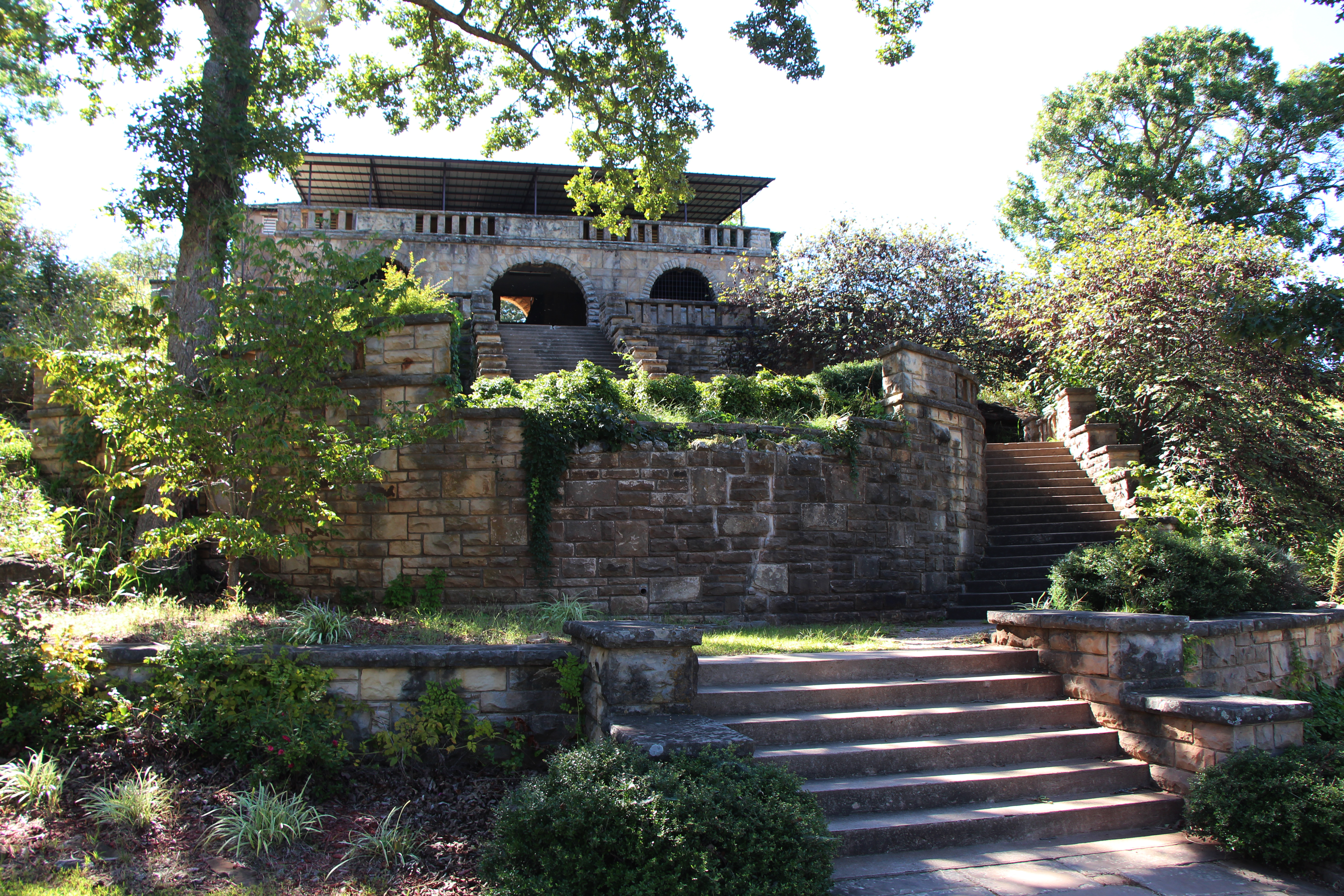 Pawnee Bathouse, east side